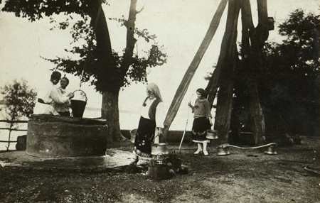 Bulgaria